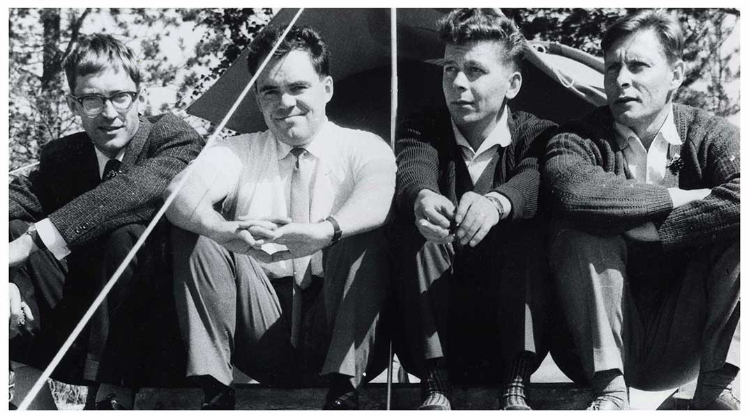 Finnish writers visiting Ukonjärvi: Jorma Etto, Oiva Arvola, Raimo Laine ja Martti Qvist.